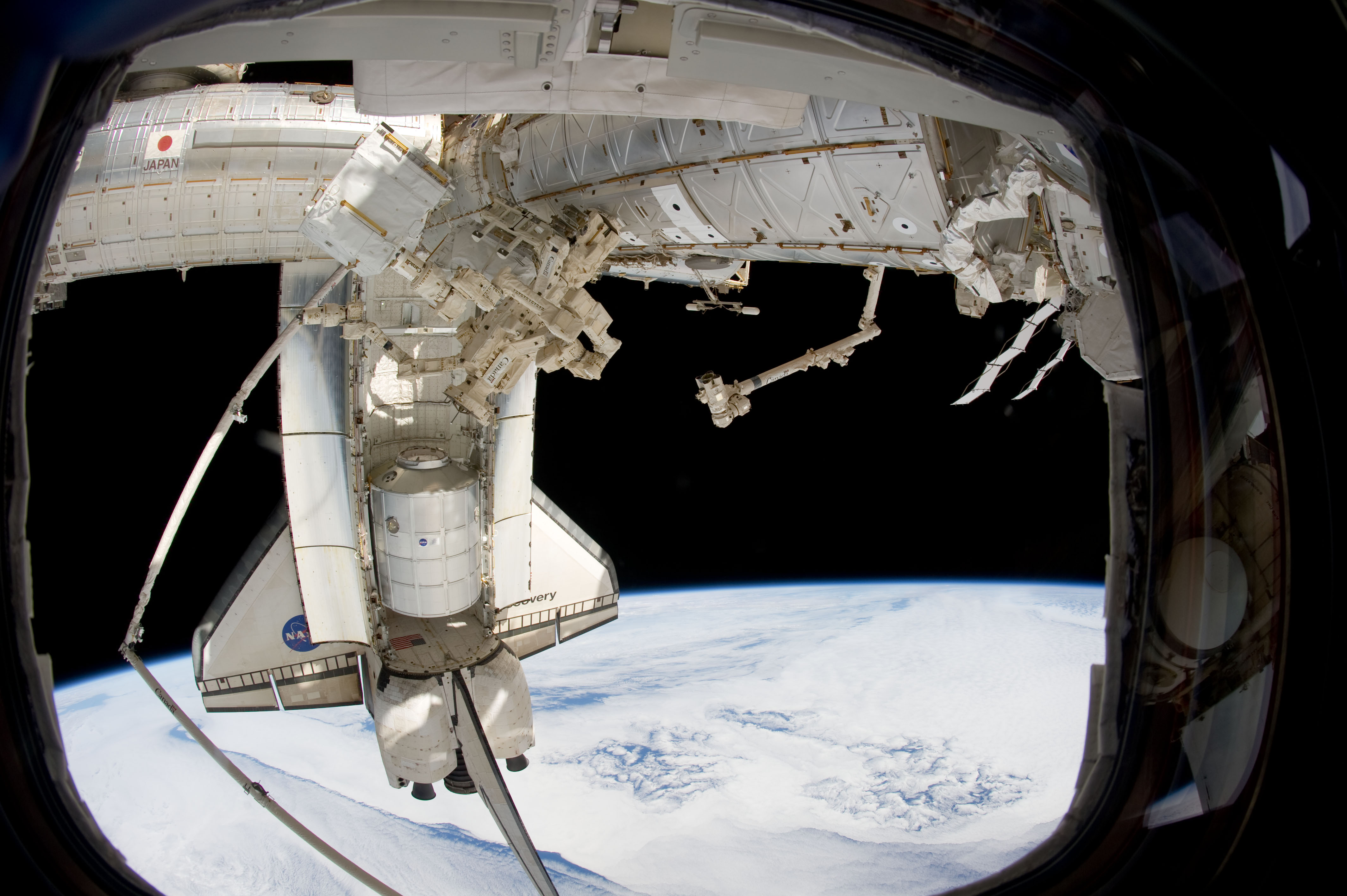 The docked space shuttle Discovery (STS-133) and the Canadian-built Dextre, also known as the Special Purpose Dextrous Manipulator (SPDM), are featured in this image photographed by a crew member on the International Space Station. The blackness of space and Earth's horizon provide the backdrop for the scene.